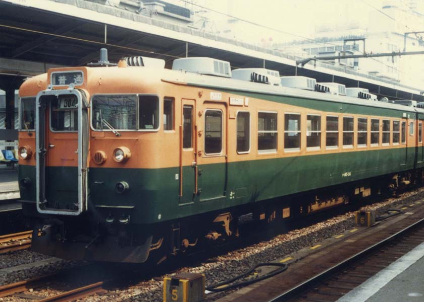 JNR 165 series EMU Kuha 165-134, ca. 1986